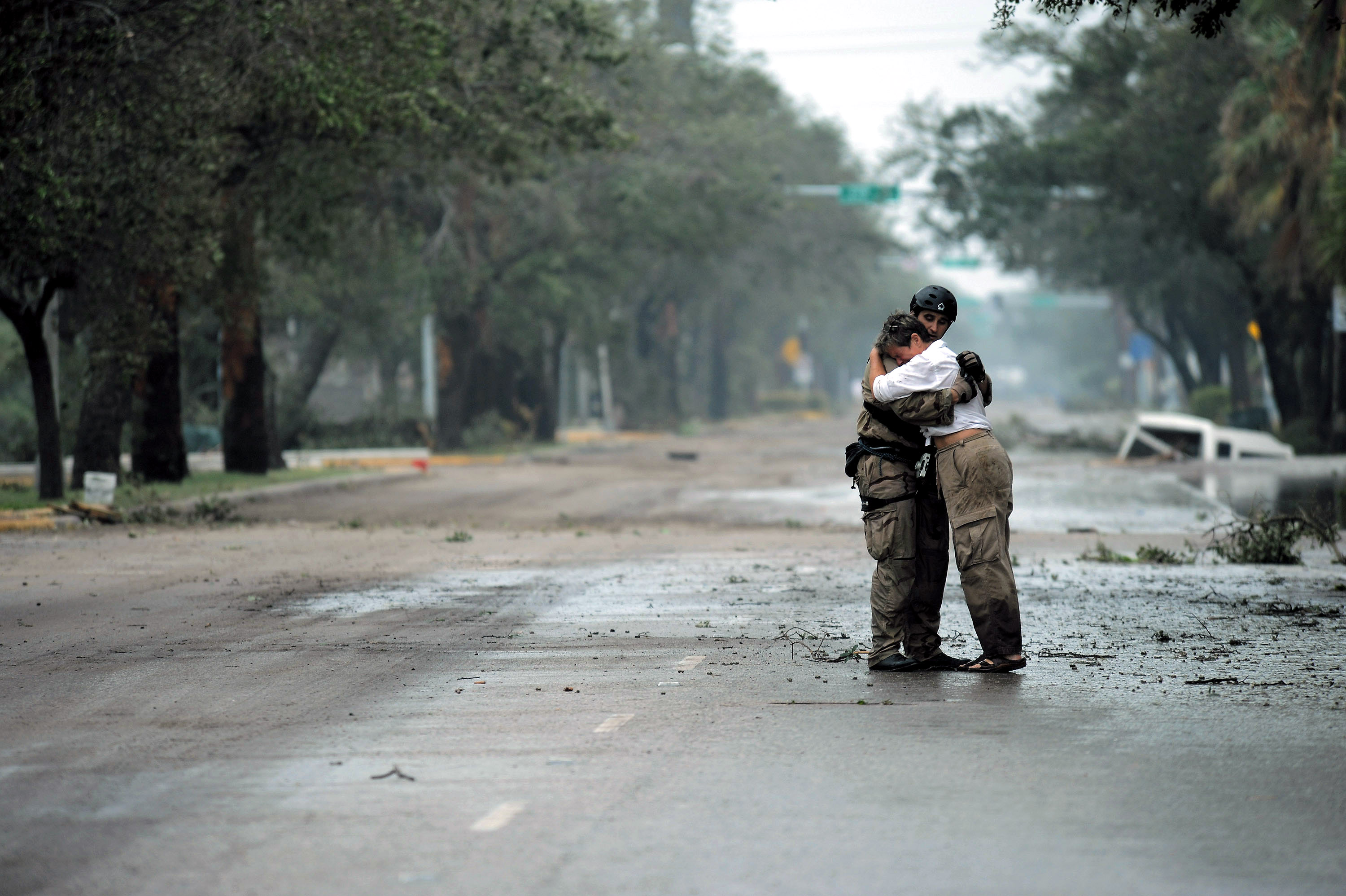 Pararescueman Staff Sgt. Lopaka Mounts receives a hug from a resident after Hurricane Ike, Sept. 13, 2008. Sergeant Mounts is assigned to the 331st Air Expeditionary Group on Randolph Air Force Base, Texas.